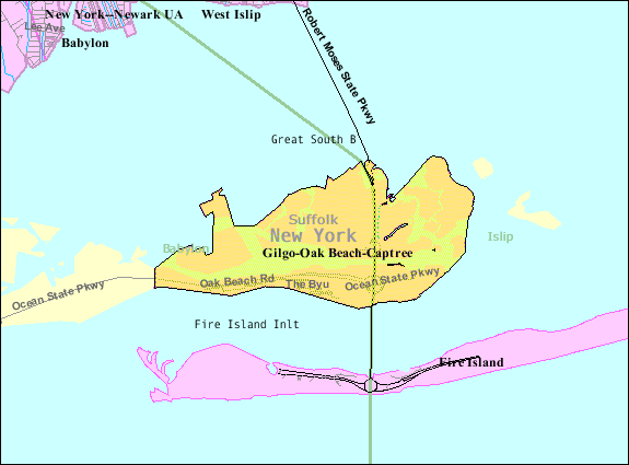 U.S. Census 2000 reference map for Gilgo-Oak Beach-Captree, New York